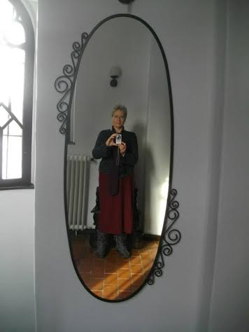 Julianna Polgár, Hungarian poet